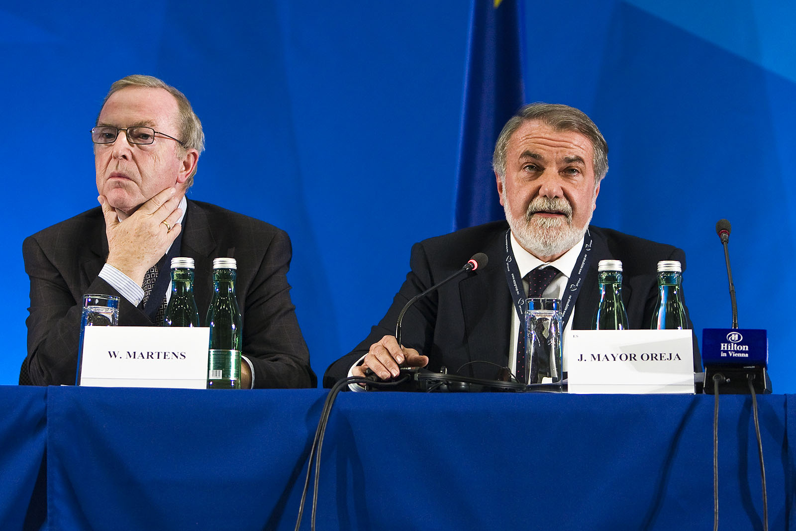 european ideas network